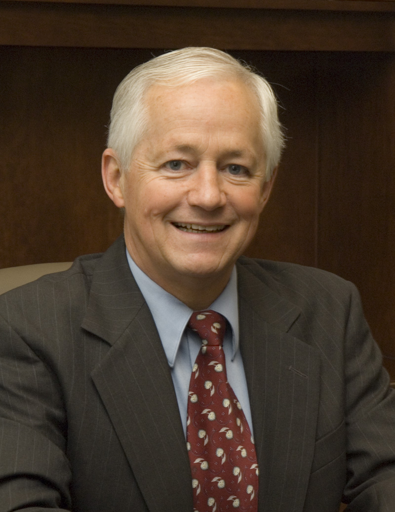 Image of Commissioner Mike Kreidler